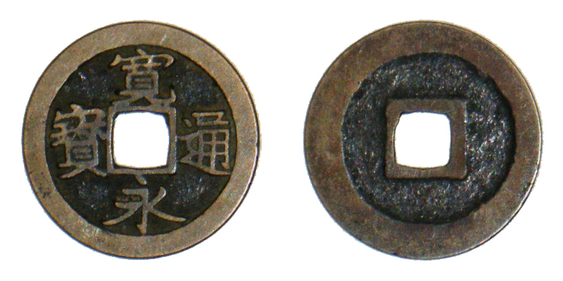 Kanei-tsuho-takada